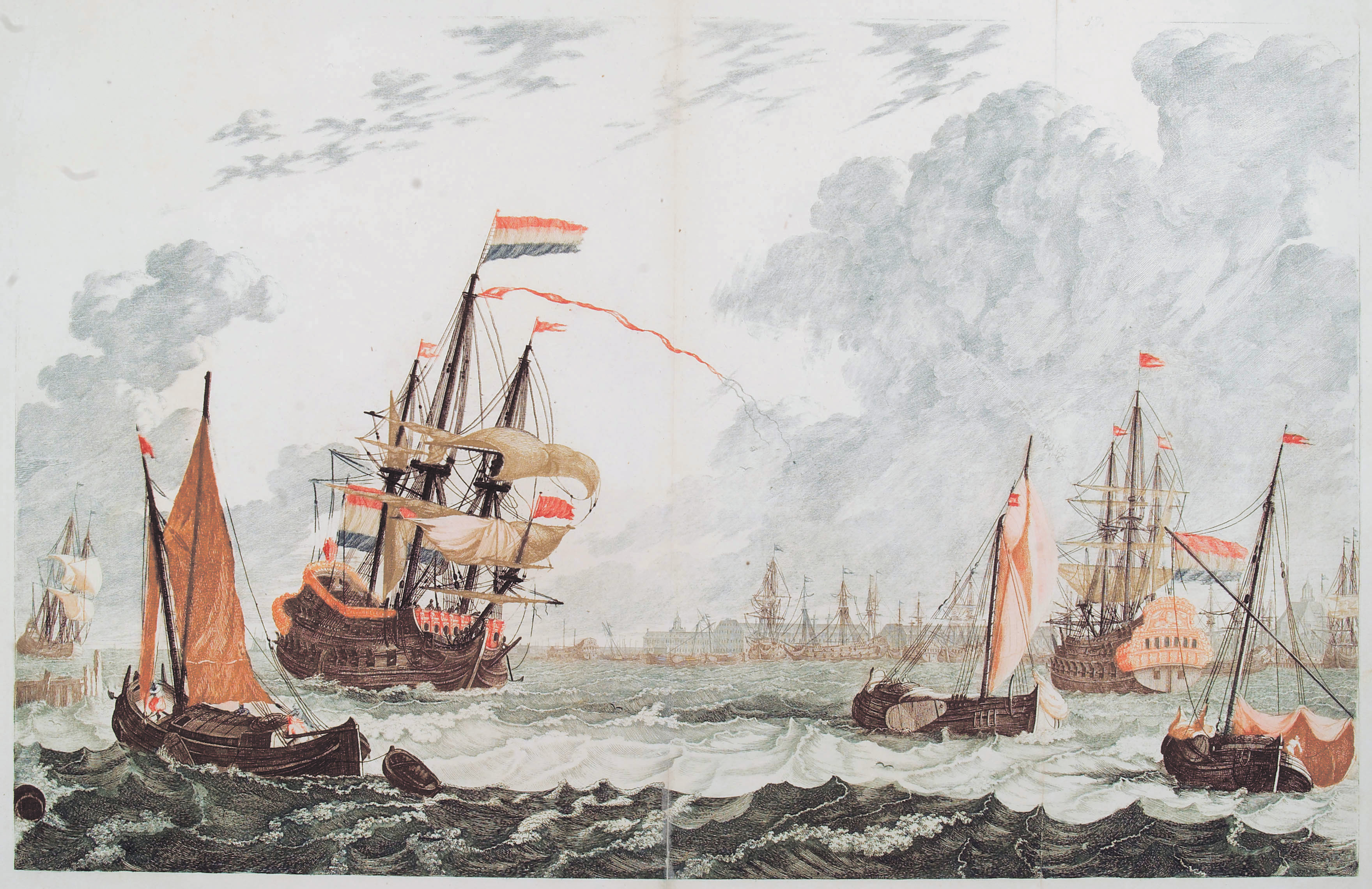 Merchant vessels off a port colour printed engravings